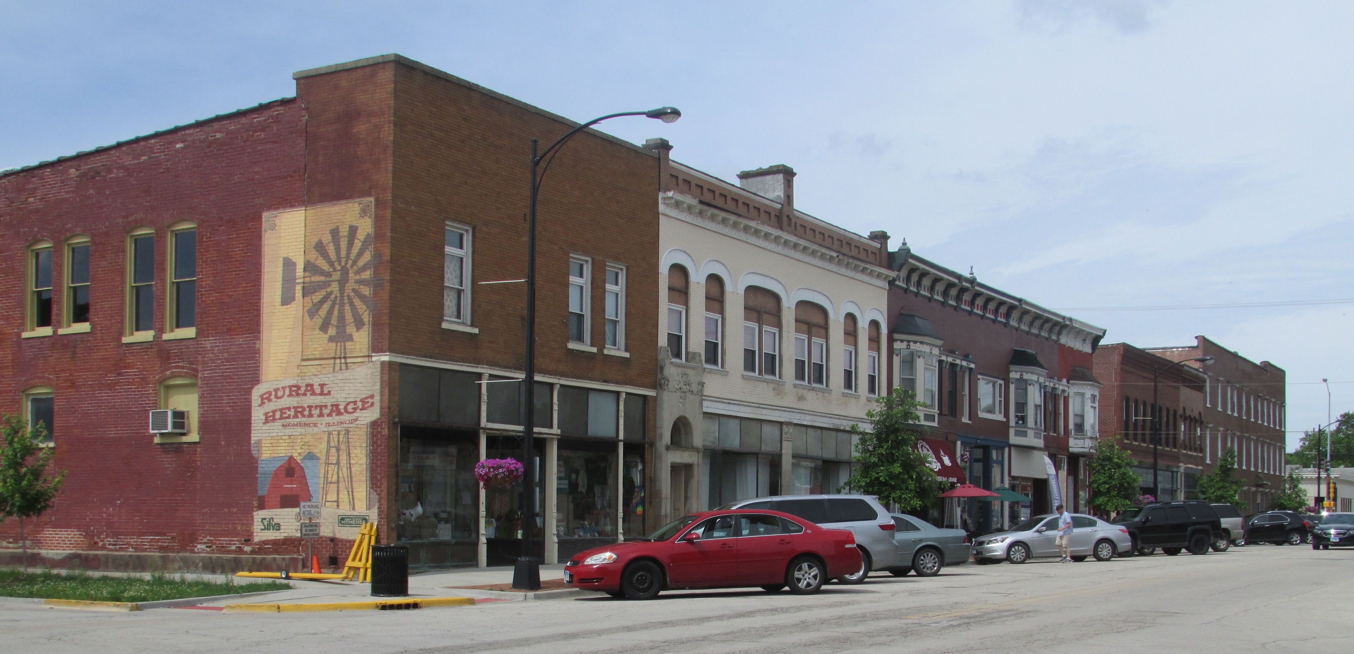 Washington Street, Momence, Illinois.